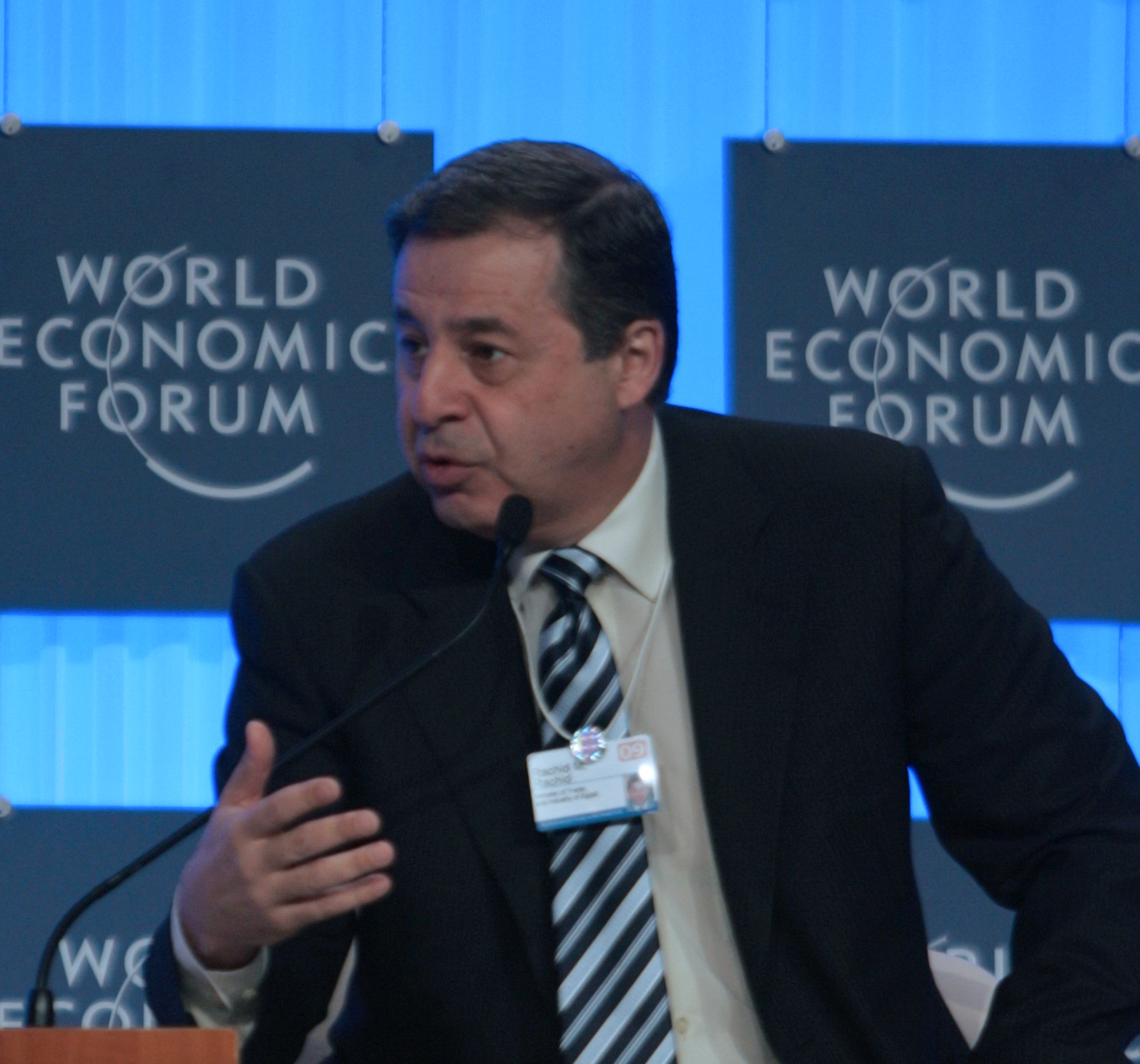 Rachid M. Rachid, Minister of Trade and Industry of Egypt, during the World Economic Forum on the Middle East at the Dead Sea in Jordan, May 15, 2009.